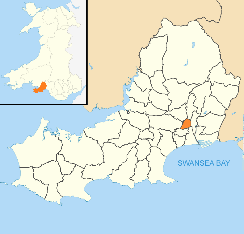 Location map of the community (civil parish) of Cwmbwrla in Swansea, Wales